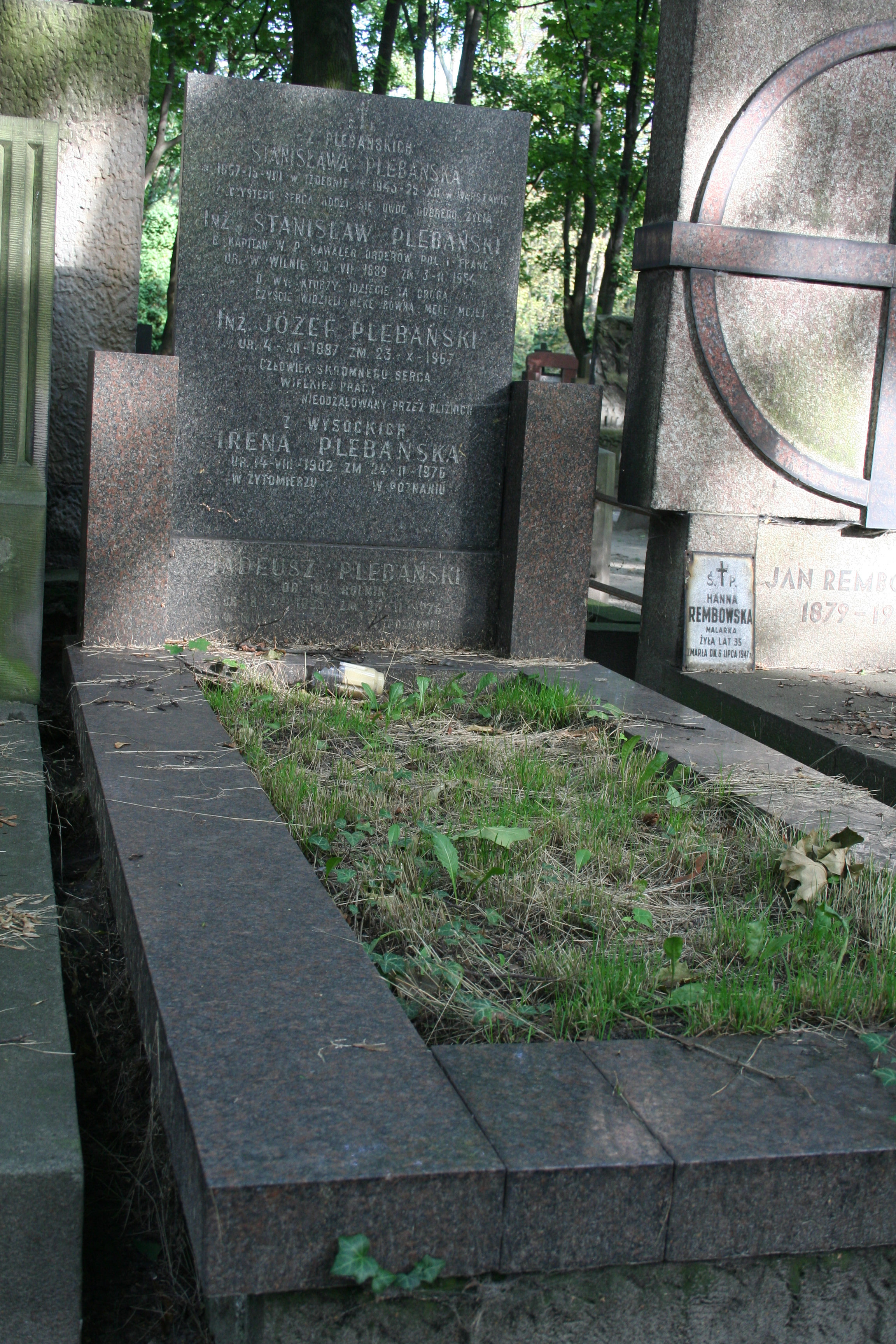 Grave of Józef Plebański at Powązki Cemetery in Warsaw, Poland